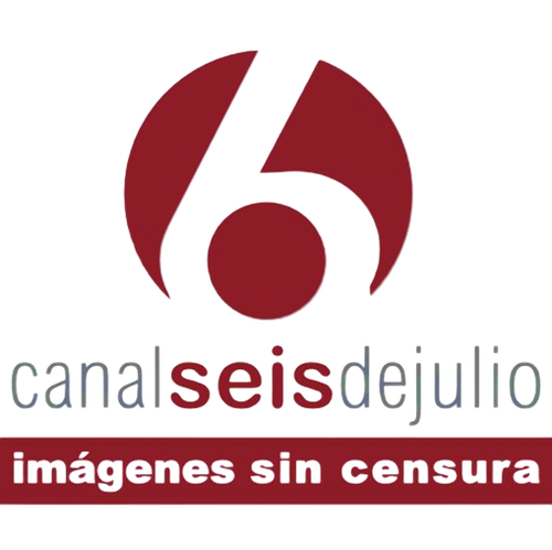 This is the logo of the documentaries producer Canal Seis de Julio A.C.